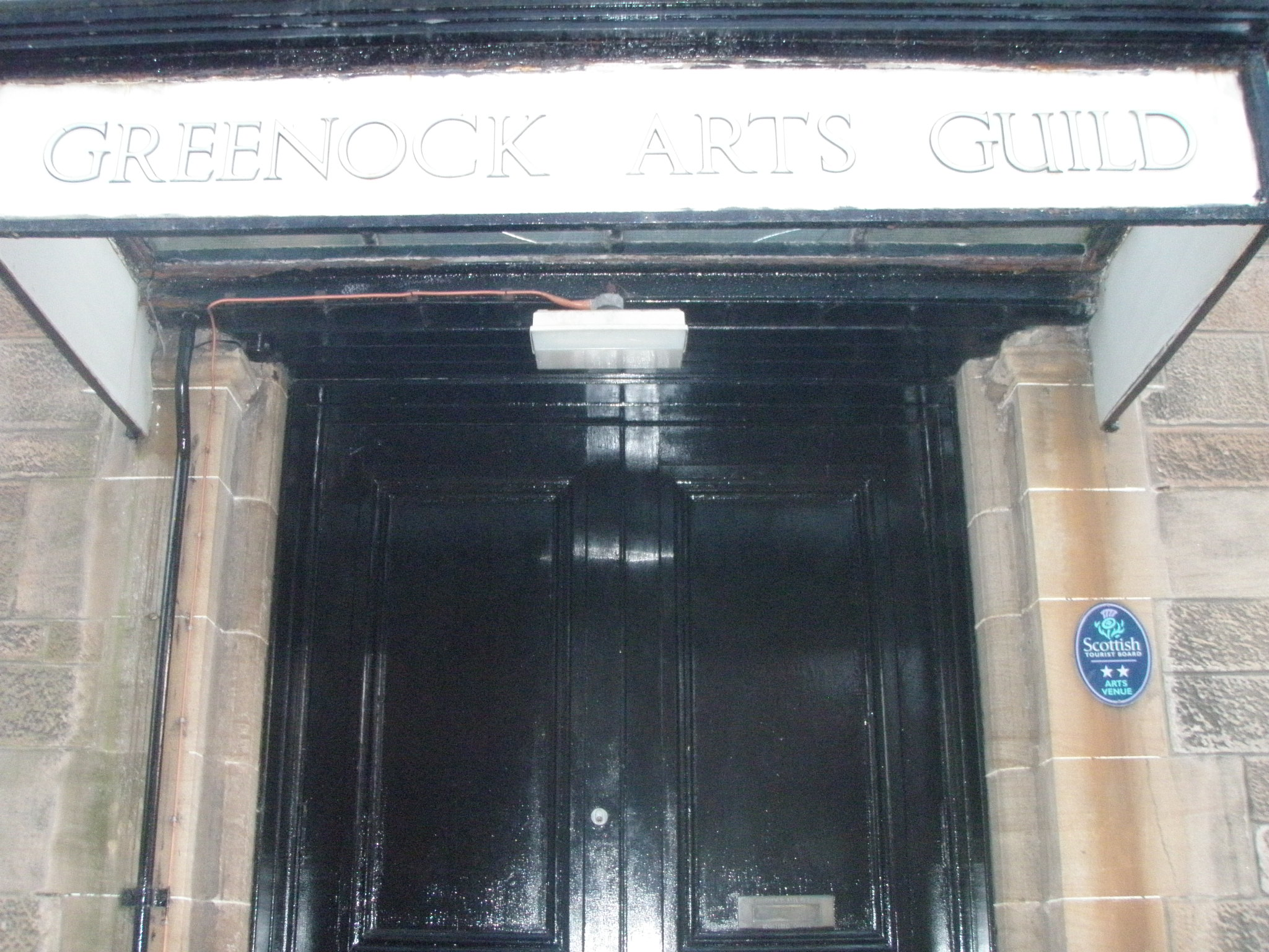 Shows Main Arts Guild Entrance